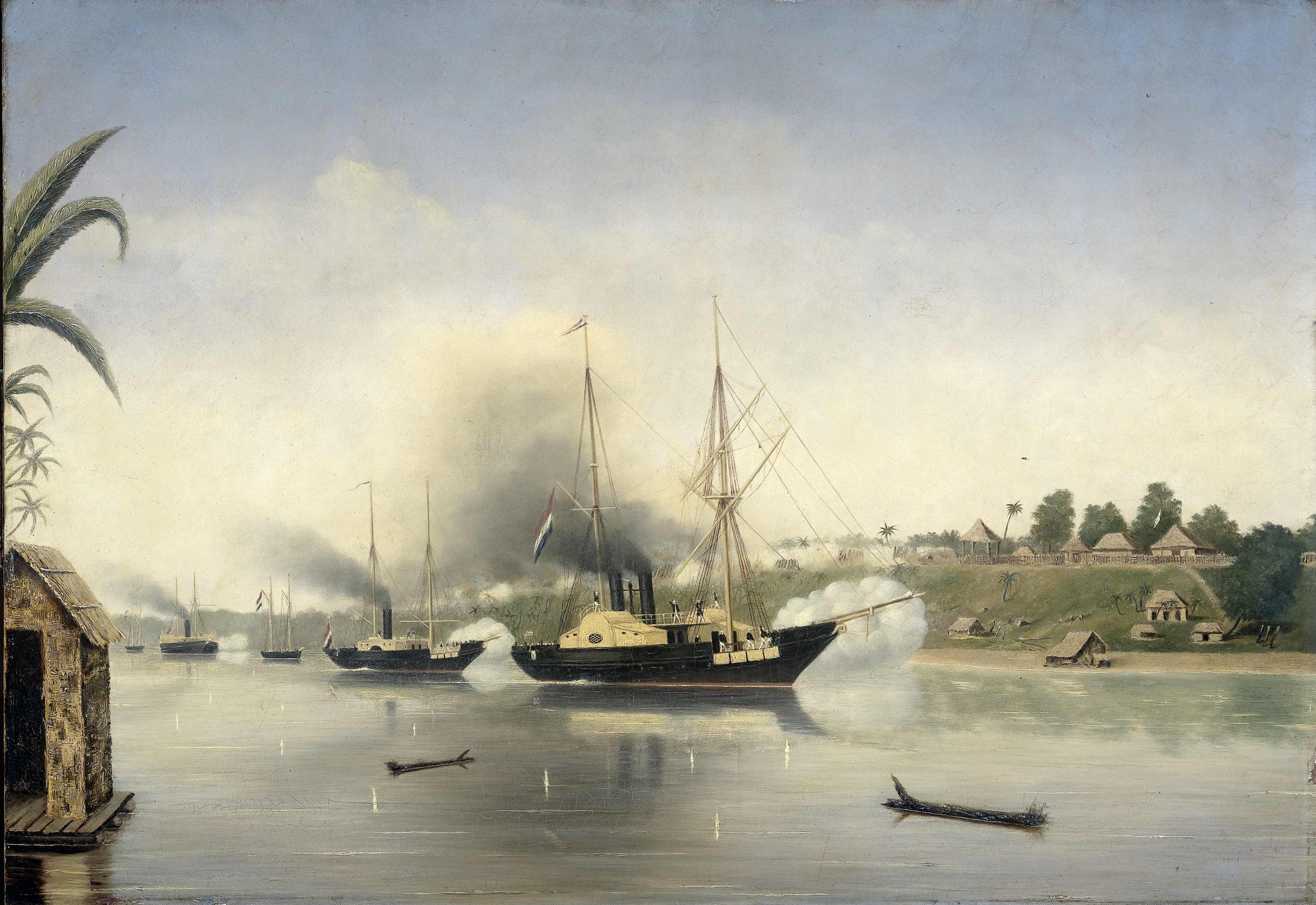 The bombardment of the kraton of Sultan Taha of Jambi by the Dutch East Indies naval ships Celebes, Admiraal van Kinsbergen and Onrust on 8 September 1858. Three Dutch gunboats on the Jambi river are firing at houses and huts alongside the river.